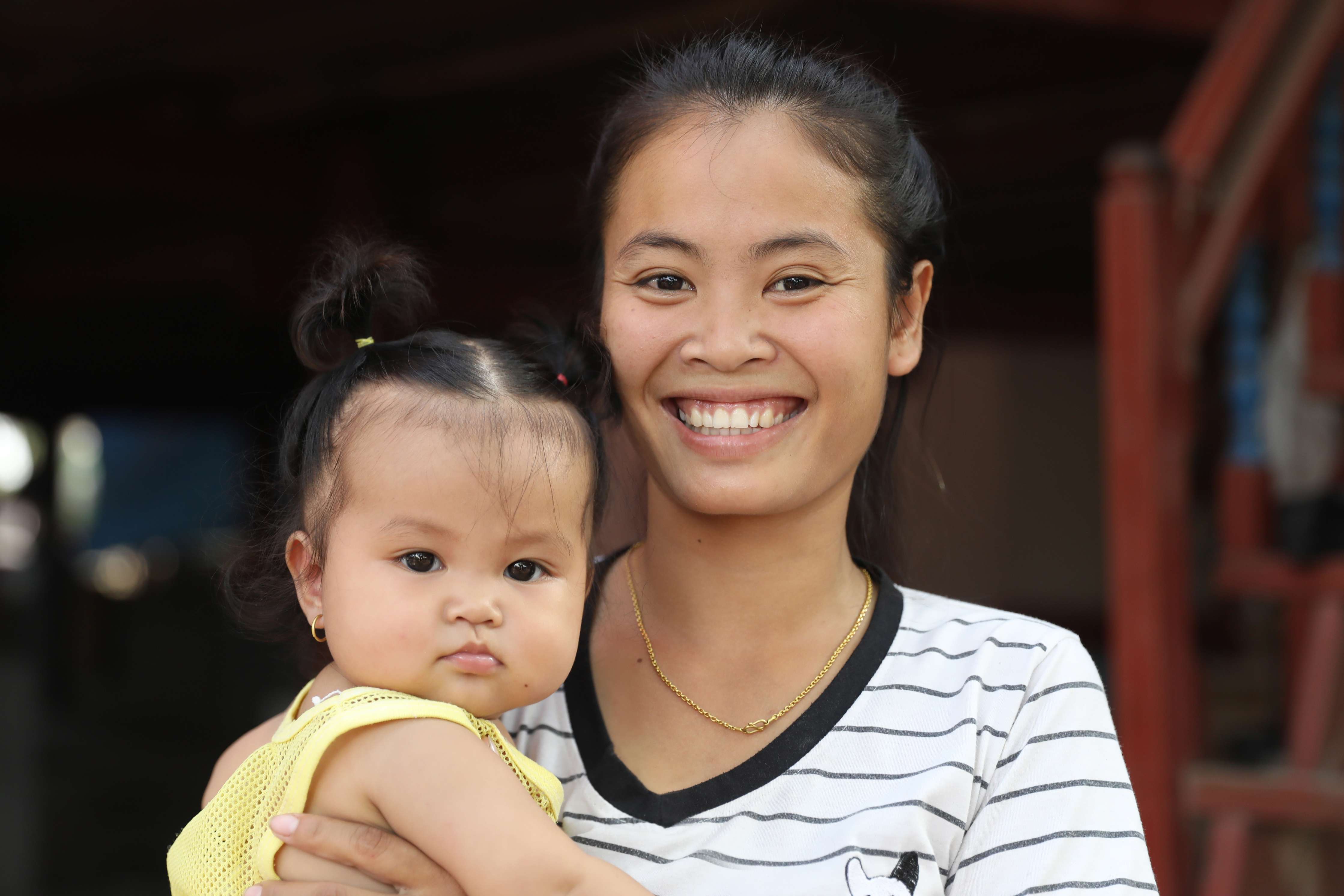 Young mother smiling while holding her baby in Don Det (Si Phan Don, Laos)